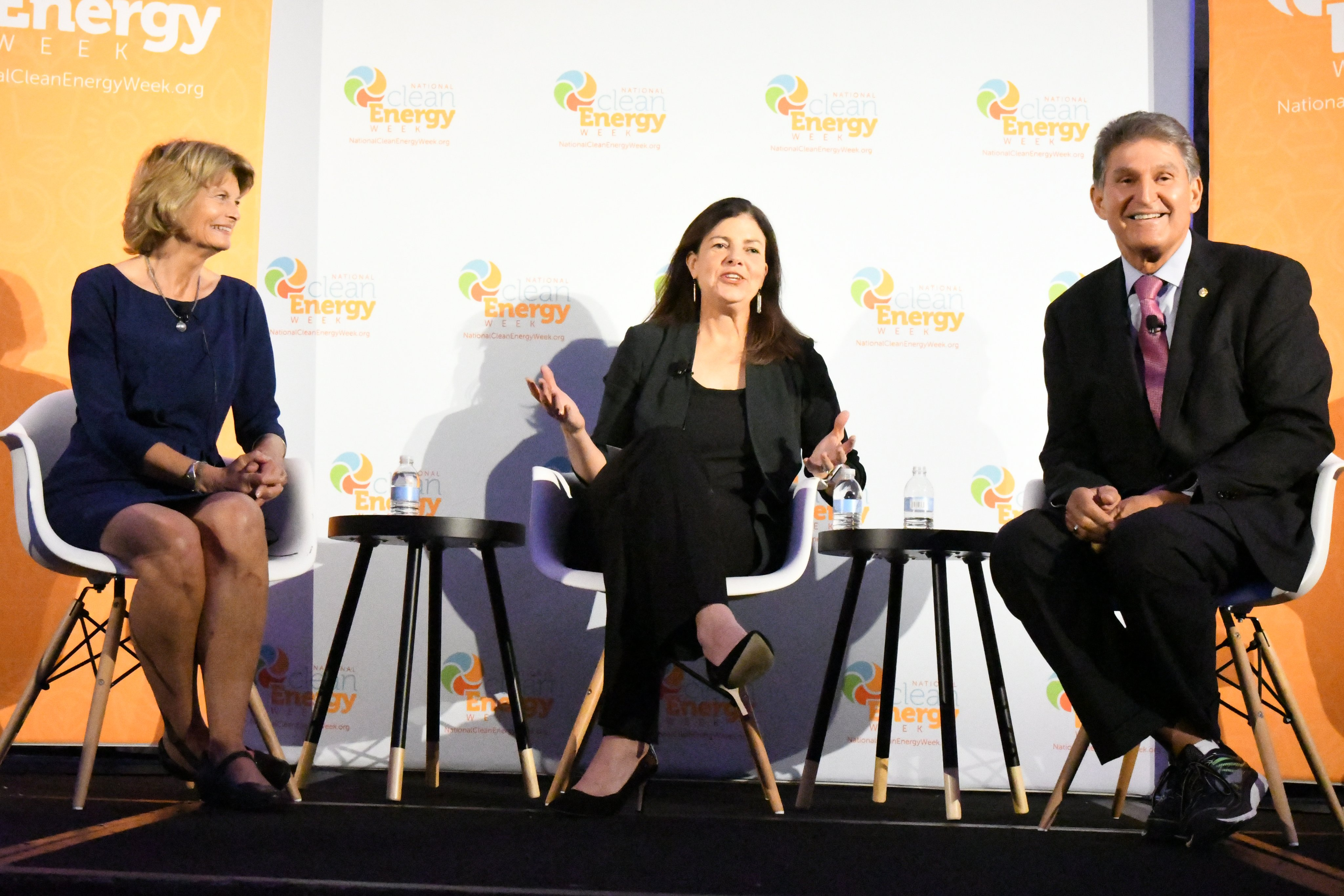 We also discussed the minerals used to build these clean energy technologies, and the importance of supporting research and innovation in across the globe. #CleanEnergyWeek